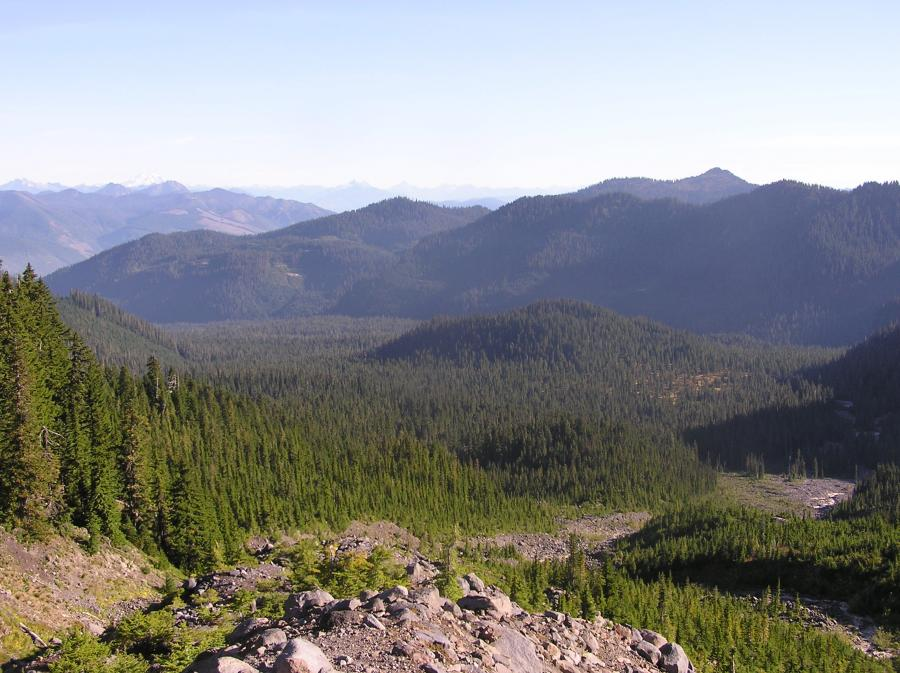 Schriebers Meadow cinder cone (tree covered mound in center) and lava flows erupted about 9,800 years ago just south of Mount Baker, Washington.